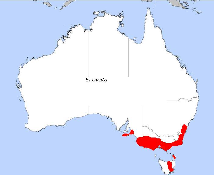 Eucalyptus ovata distribution map, by HelloMojo 08:53, 6 April 2007 (UTC)